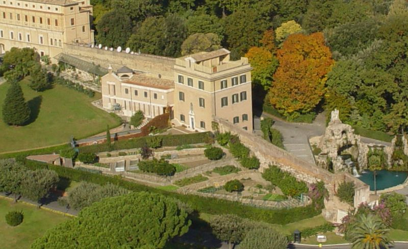 Mater Ecclesiae monastery